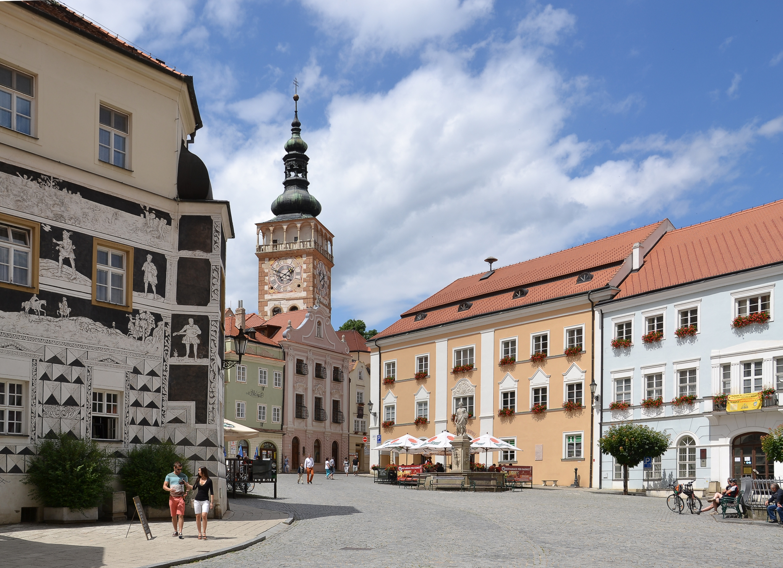 Mikulov (Nikolsburg), Moravia - Náměstí (Main square)